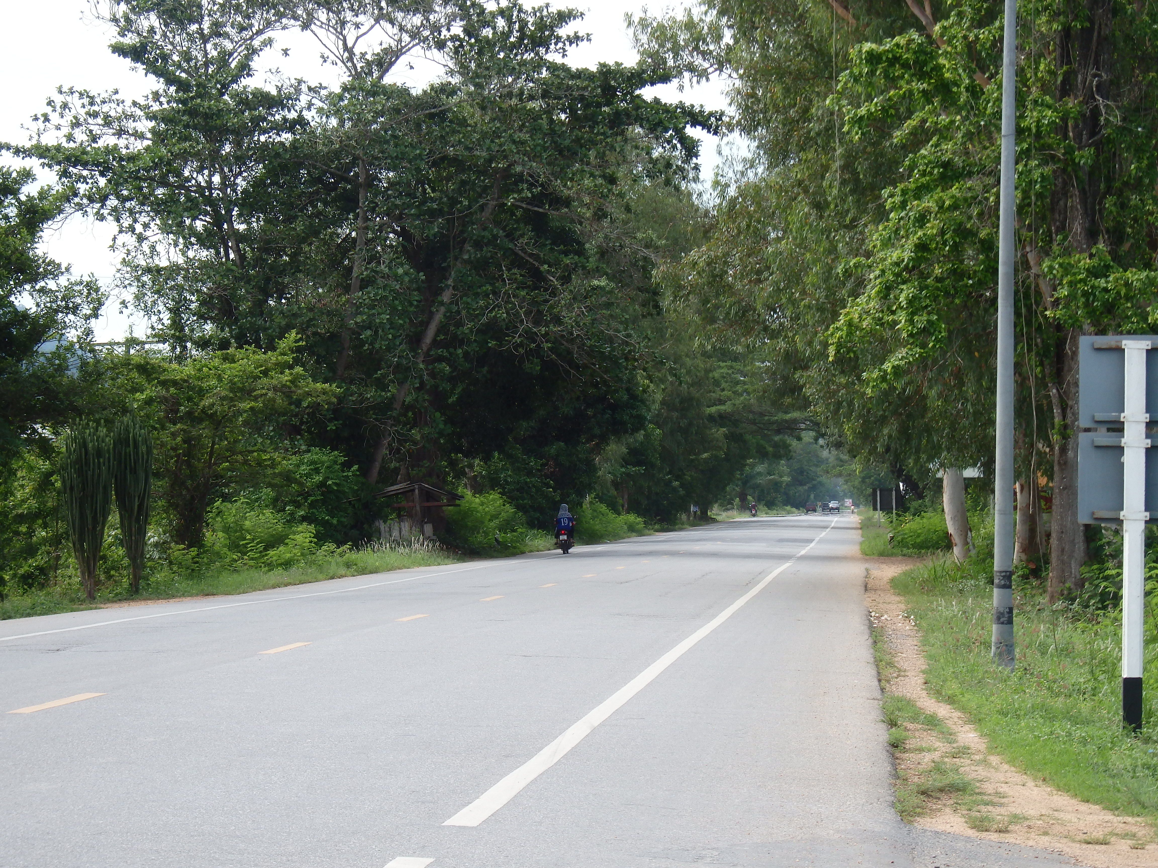 Kamphaeng Phet, Rattaphum District, Songkhla 90180, Thailand